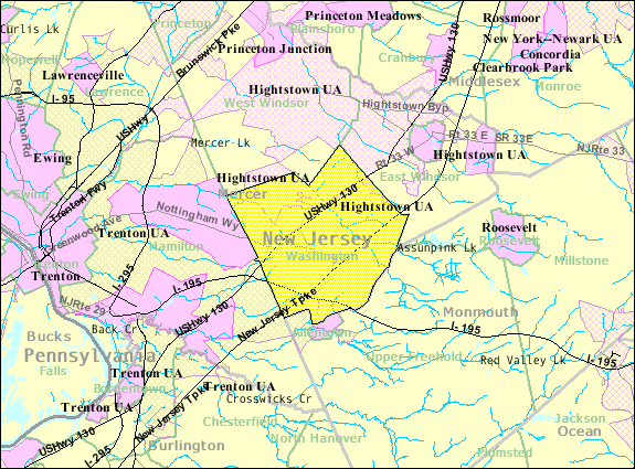 Census Bureau map of Robbinsville Township, New Jersey. This township was named Washington Township until 2007.